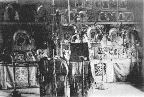 The chappel in Old Believers' Olenevskii skit